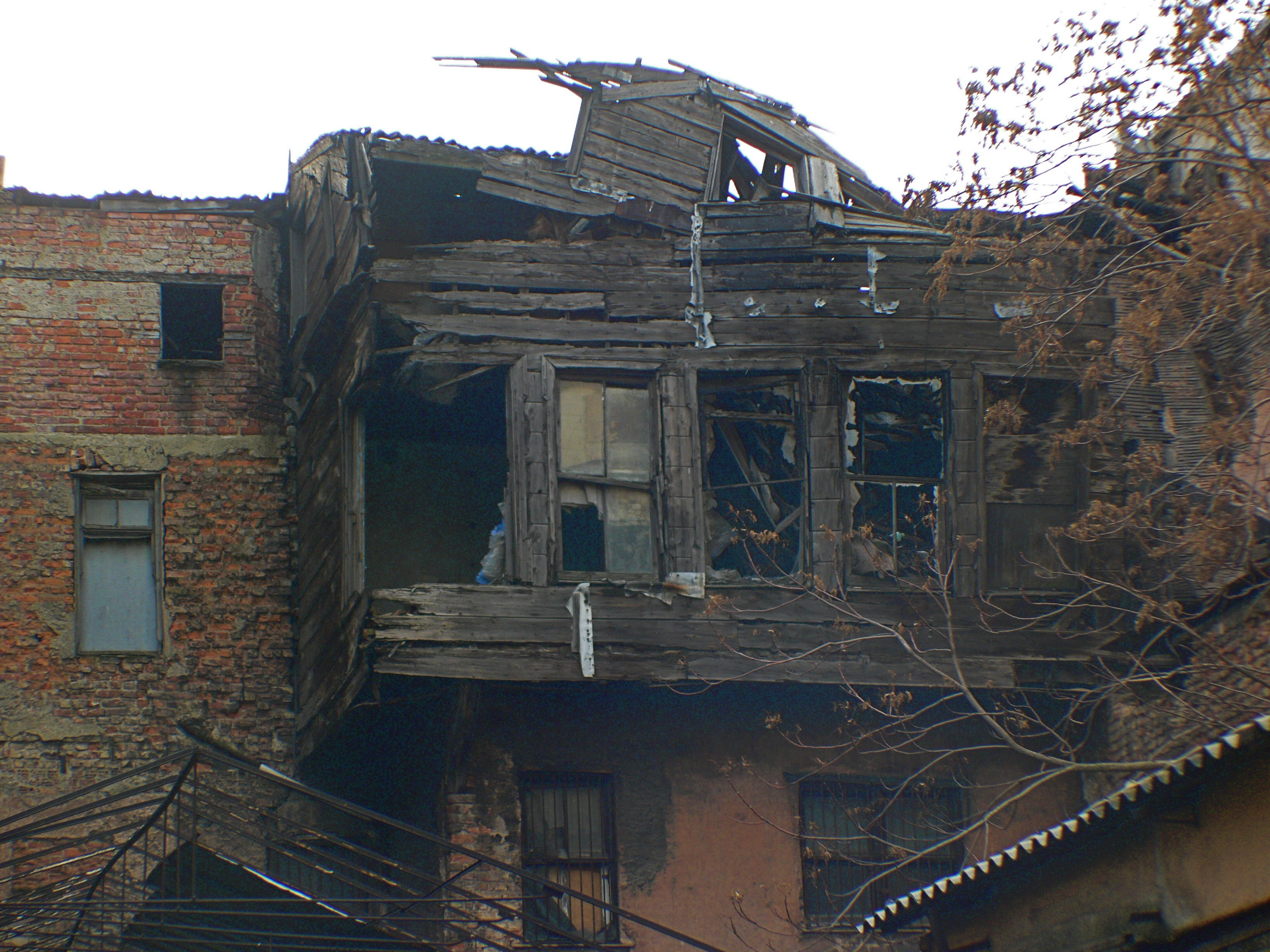 Aftermath of a fire in Istanbul